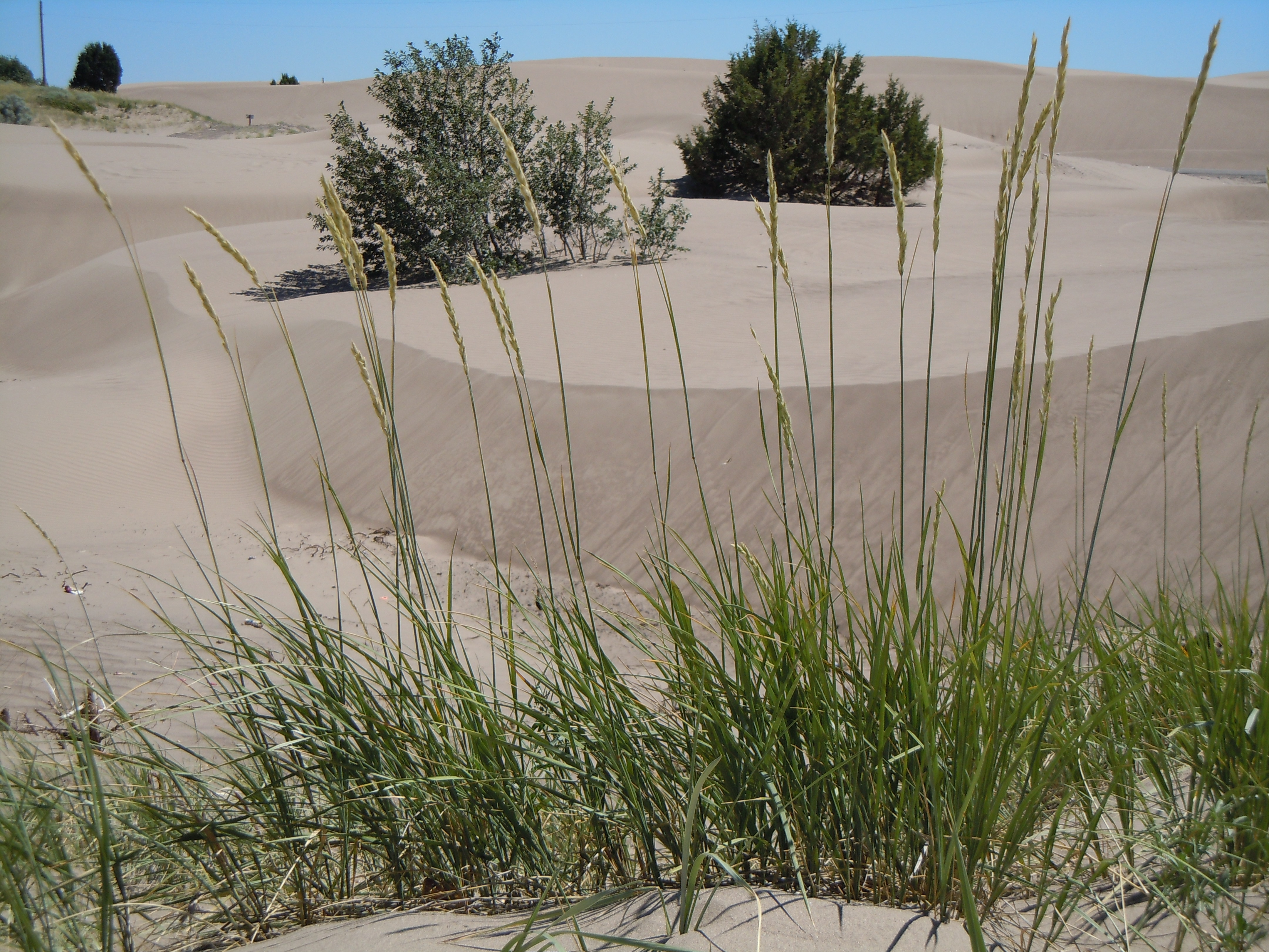 Elymus flavescens is common along the margins of the Saint Anthony sand dunes.